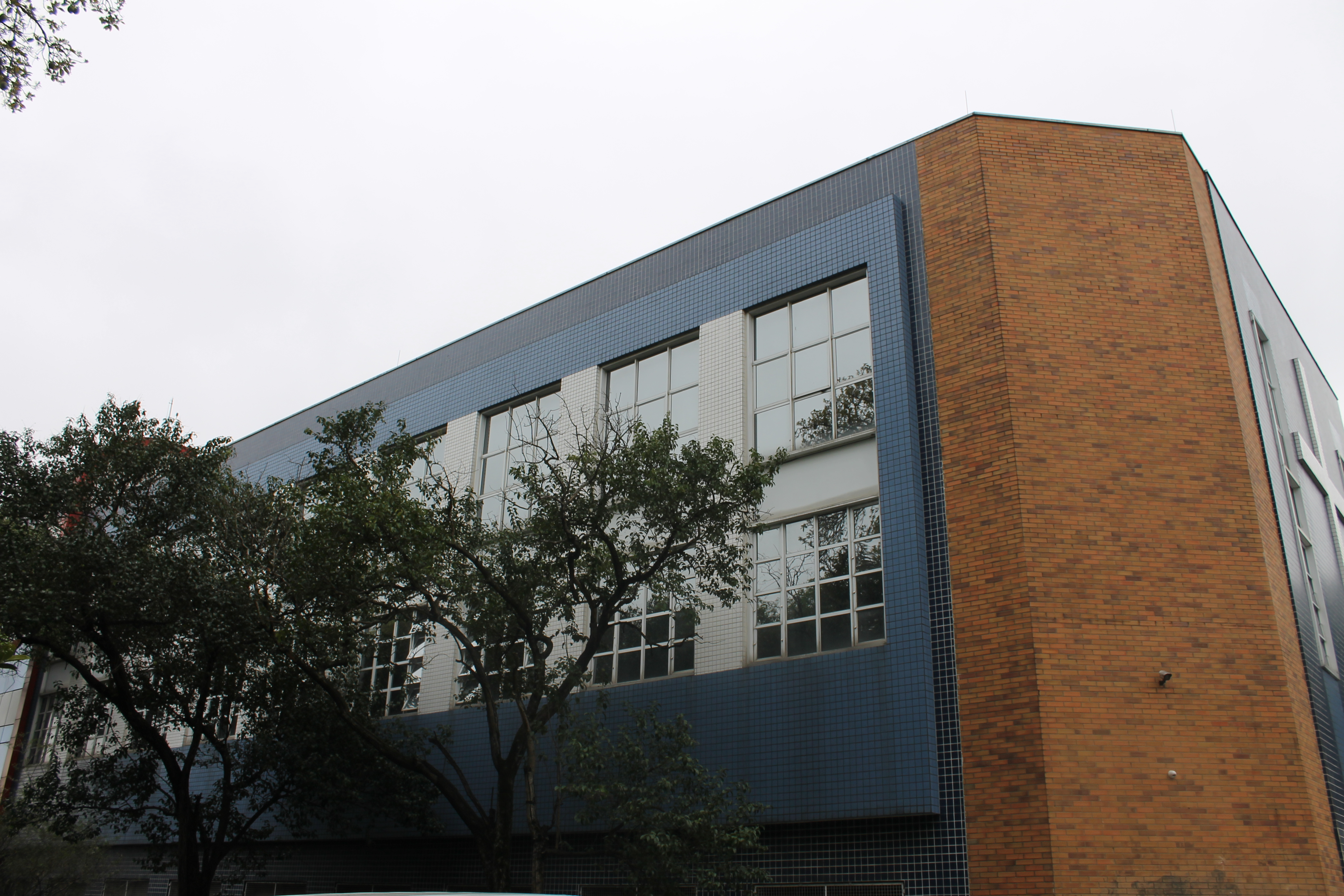 Edifício oeste do Colégio São Francisco Xavier em São Paulo (SP), Brasil